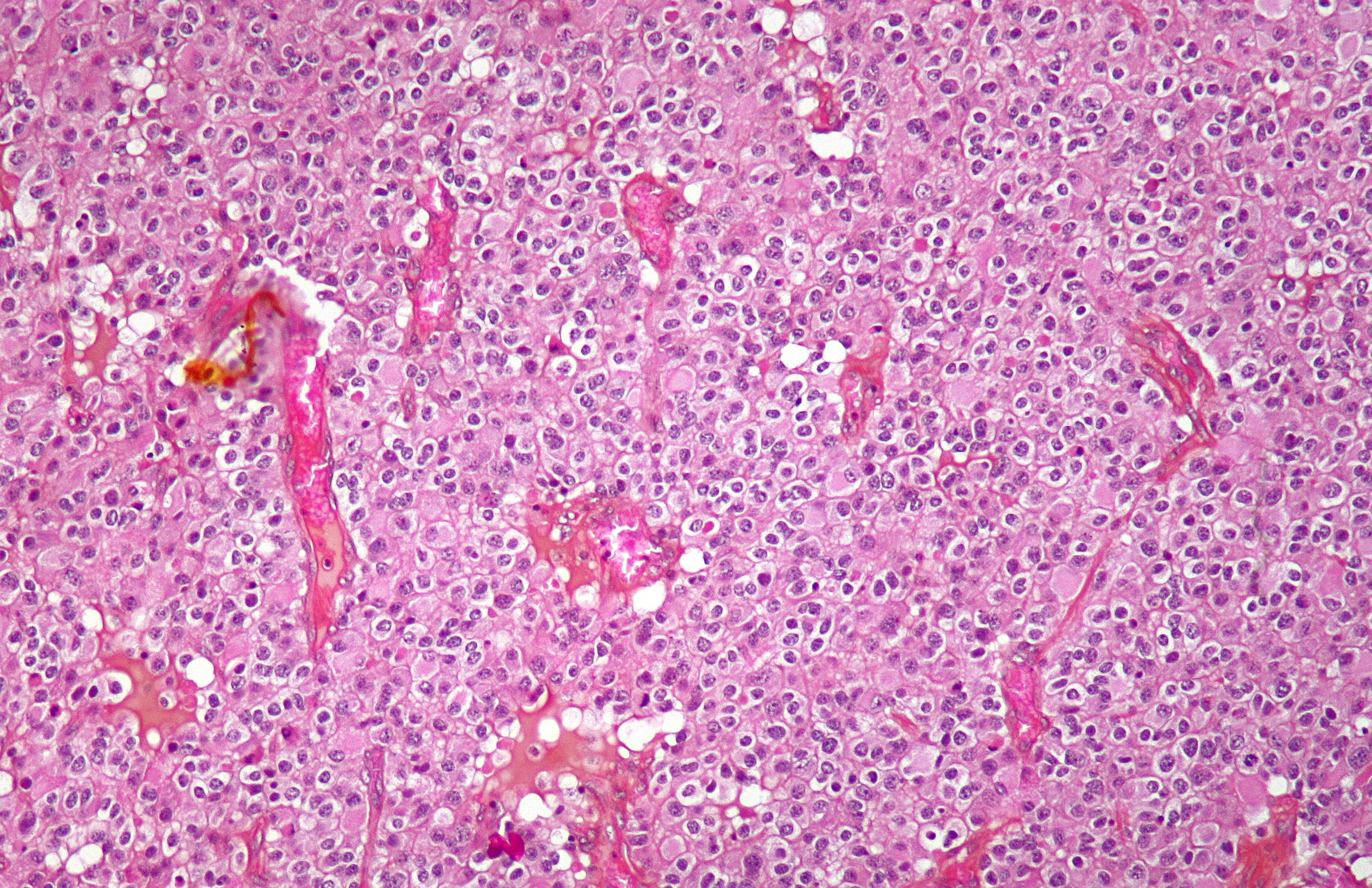 Low magnification micrograph of an oligodendroglioma. Brain biopsy. H&E stain. Description: Highly cellular lesion composed of: cells resembling fried eggs with: distinct cell borders moderate-to-marked nuclear atypia, and a clear cytoplasm. acutely branched capillary sized vessels - "chicken-wire" like appearance. Related images Low mag. High mag.